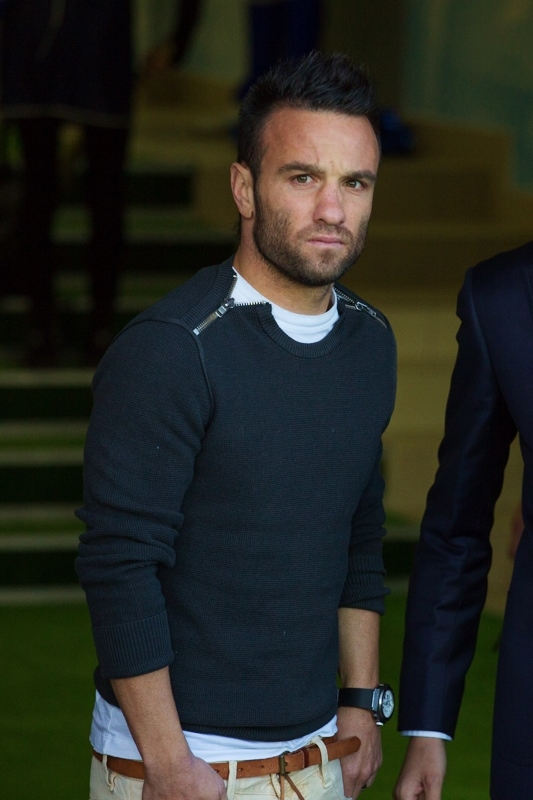 Mathieu Valbuena